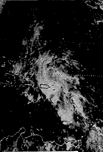 Satellite image of the precursor to Tropical Storm Isabel in 1985